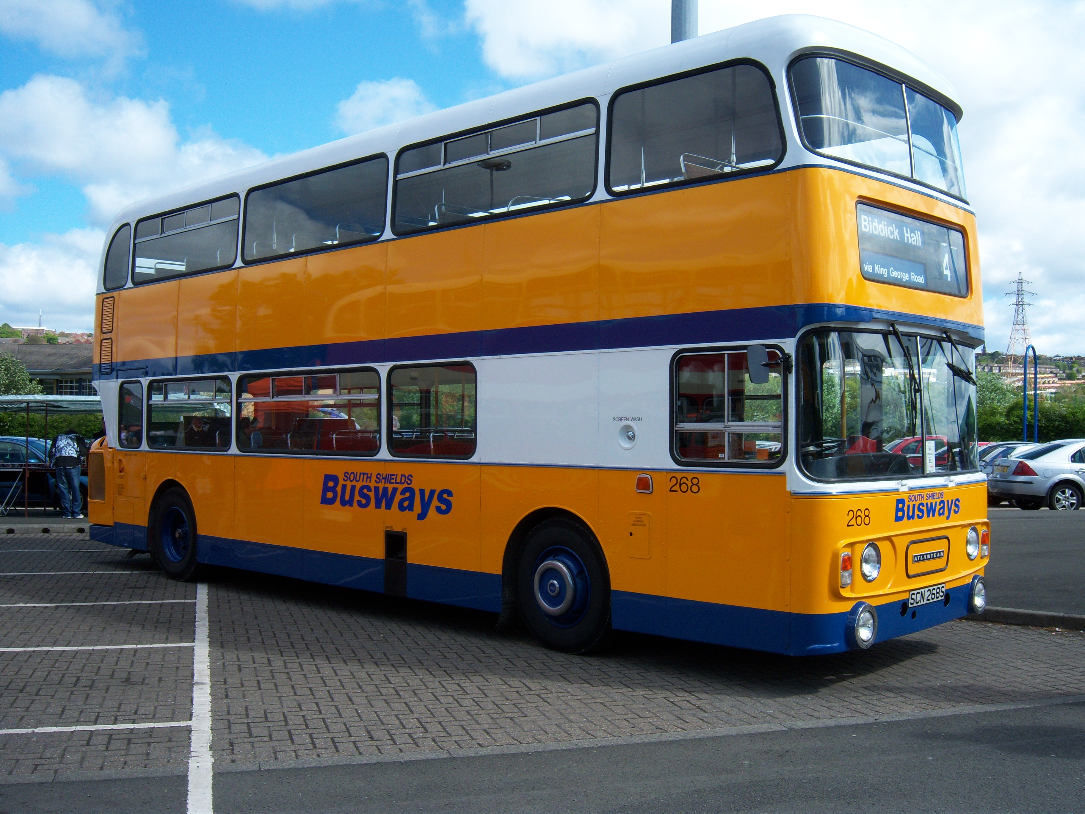 Preserved Busways Travel Services 268 (SCN 268S), a Leyland Atlantean/Alexander, on display at the 2009 Metrocentre bus rally. It is in the South Shields Busways livery.